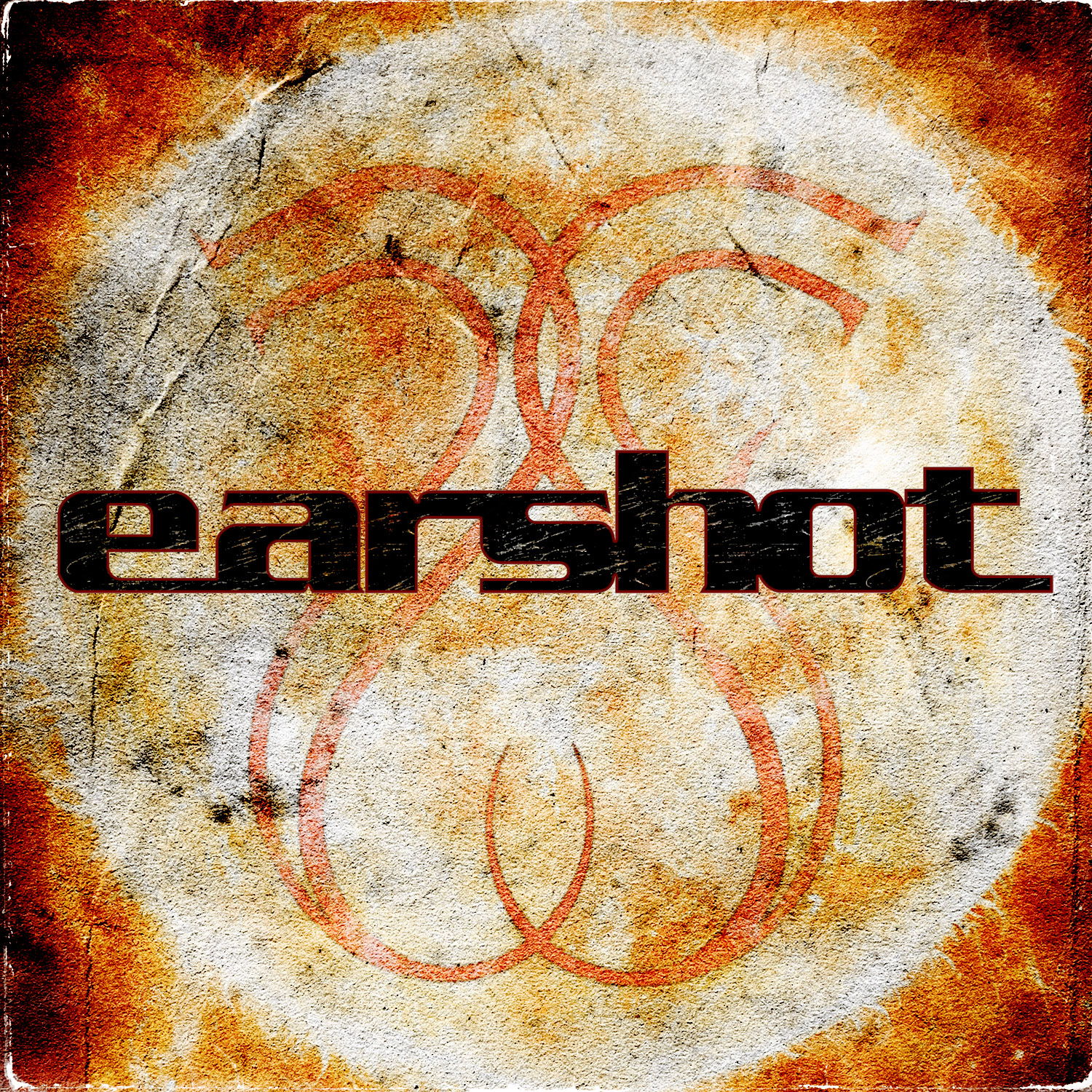 Earshot